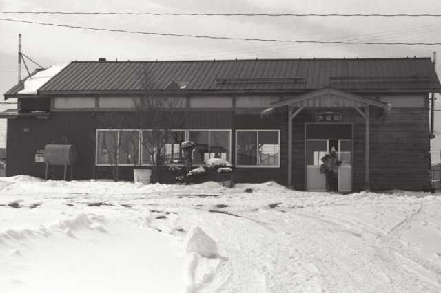 Nayoro Main Line Saruru Station